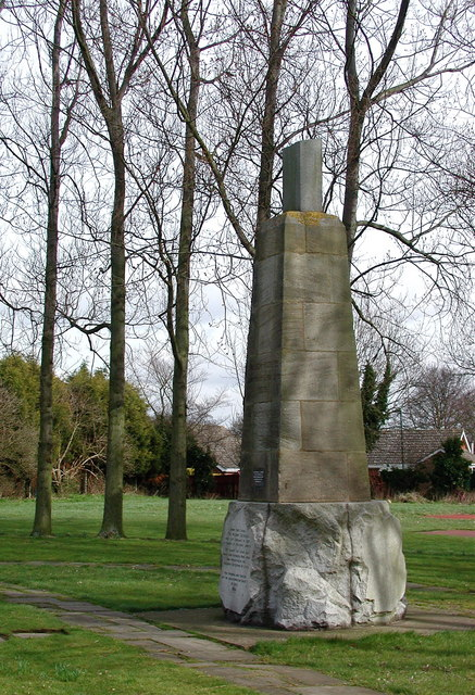 Pilgrim Fathers Memorial, Immingham Memorial to the Pilgrim Fathers off Church Lane, south of St Andrews Church. An inscription on the base reads: "From this creek the Pilgrim Fathers first left England in 1608 in search of religious liberty. The granite top stone was taken from Plymouth Rock Mass and presented by the Sulgrave Institution of USA. This memorial was erected by the Anglo-American Society of Hull 1924". During the expansion of Immingham docks in May 1970 the memorial was removed from its original site on Immingham Creek and placed here on the green.